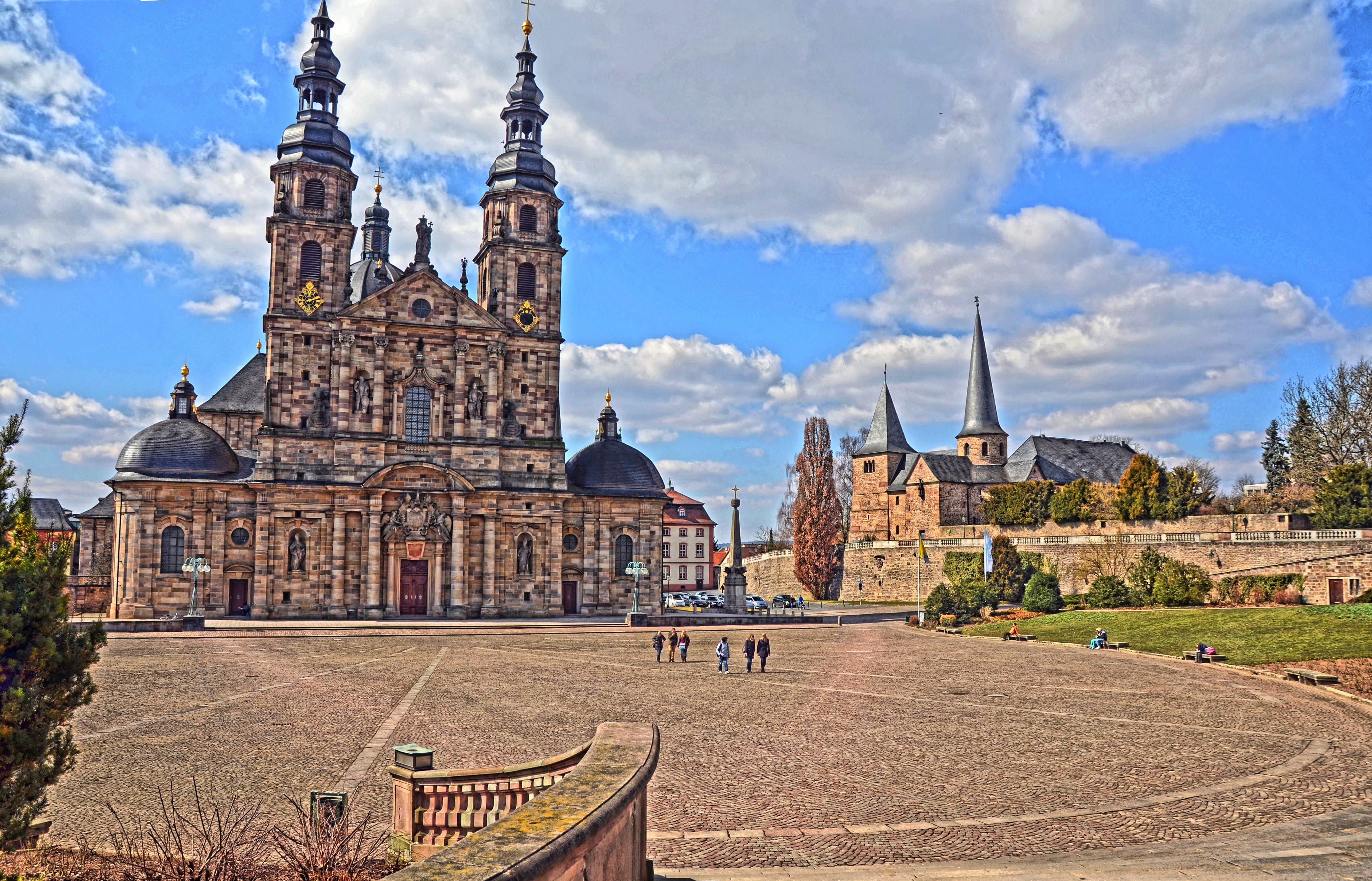 Fulda (Germany) - Dome of Fulda (tone-mapping)